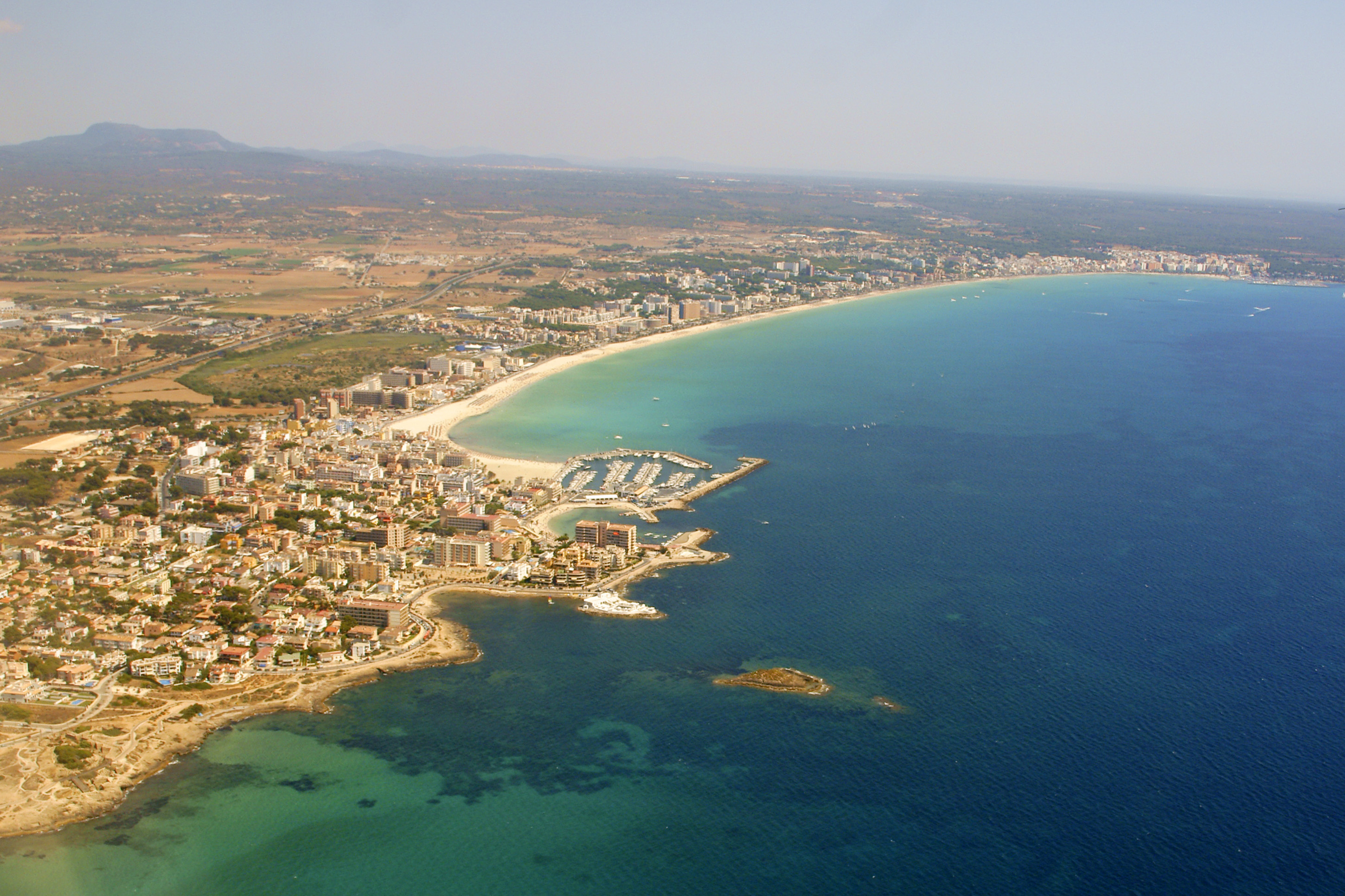 aerial photo of 'Platja de Palma'